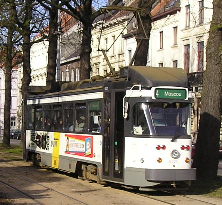 PCC tram No 6221 in Ghent.